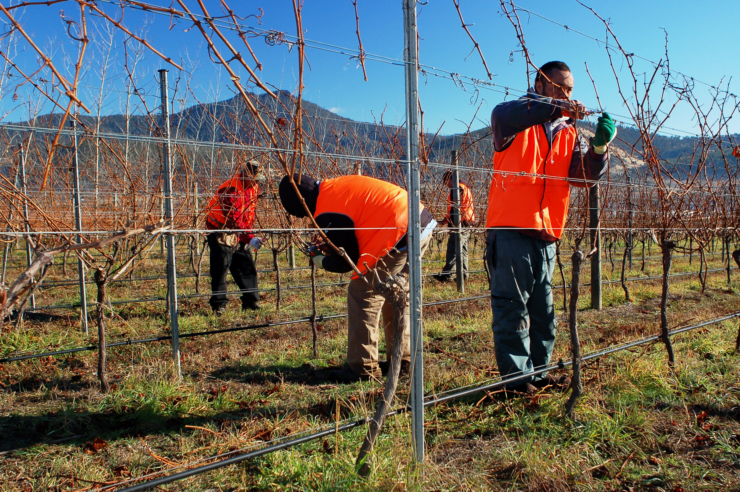 From author "winter pruning at Granton Vineyard in southern Tasmania during 2010."